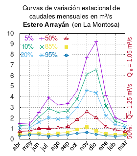 Curva de Variación Estacional del Estero Arrayán en la Montosa. # cita publicación #| apellido = Dirección General de Aguas #| nombre = #| enlace-autor = Ministerio de Obras Públicas (Chile) #| título = Diagnóstico y clasificación de los cursos y cuerpos de agua según objetivos de calidad. Cuenca del río Maipo #| ubicación = Santiago de Chile #| editorial = Ministerio de Obras Públicas (Chile) #| año = 2004 #| edición = #| url = #| urlarchivo = #| fechaarchivo = #| ref = harv # Tabla 4.12: Estación Arrayán en la Montosa pág. 64 mes 5% 10% 20% 50% 85% 95% abr 1.46 1.28 1.08 0.76 0.45 0.32 may 1.43 1.25 1.06 0.77 0.52 0.40 jun 2.52 2.06 1.62 1.01 0.57 0.41 jul 3.94 2.91 2.02 1.01 0.43 0.26 ago 3.23 2.53 1.89 1.08 0.54 0.36 sep 3.35 2.67 2.03 1.20 0.63 0.43 oct 4.54 3.76 2.98 1.84 0.91 0.53 nov 7.74 6.15 4.63 2.60 1.15 0.63 dic 9.21 6.59 4.39 2.02 0.78 0.44 ene 4.17 3.13 2.22 1.14 0.51 0.31 feb 2.04 1.72 1.38 0.86 0.42 0.26 mar 1.66 1.40 1.14 0.76 0.45 0.32 This plot was created with Gnuplot.